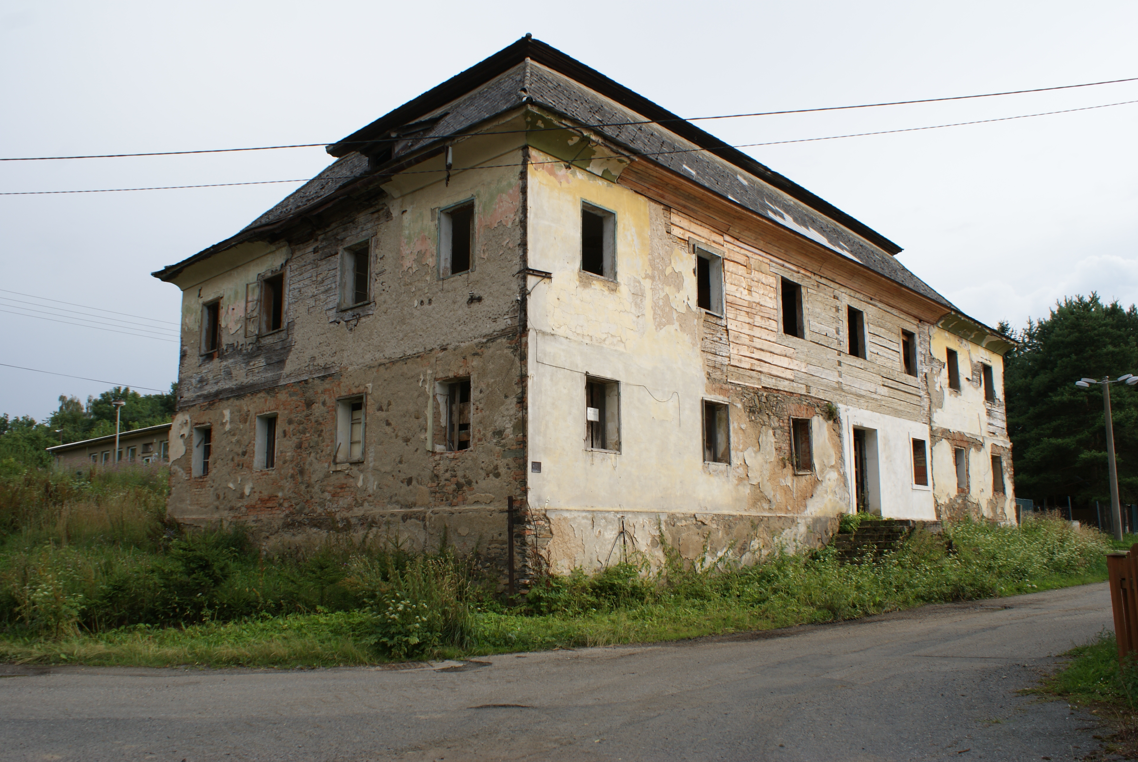 Chocenice, a village in Plzeň-South District, Czech Rep., an old house.